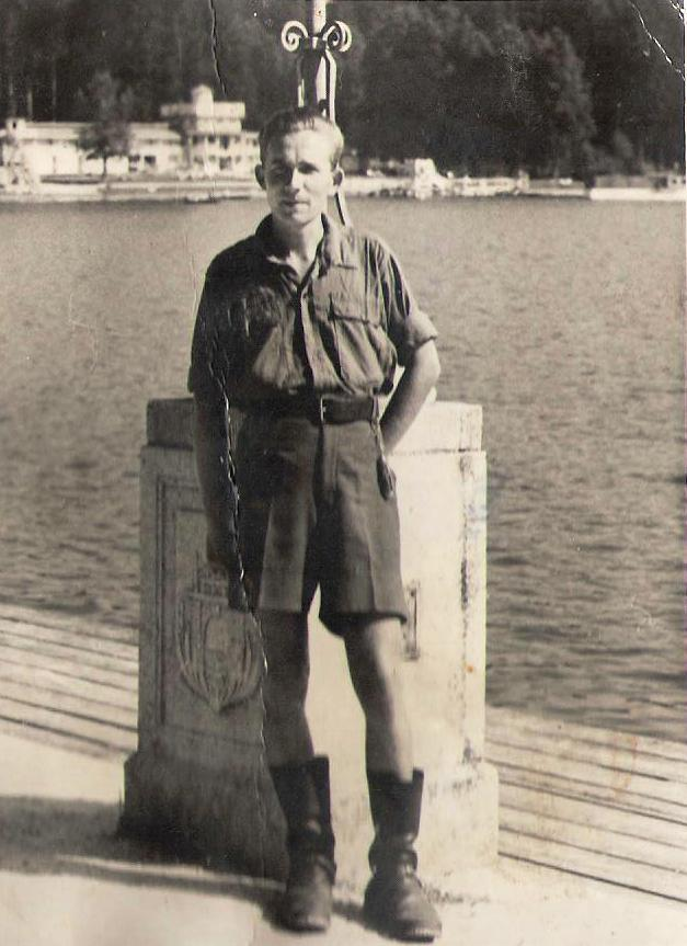 Jávori István; unknown location